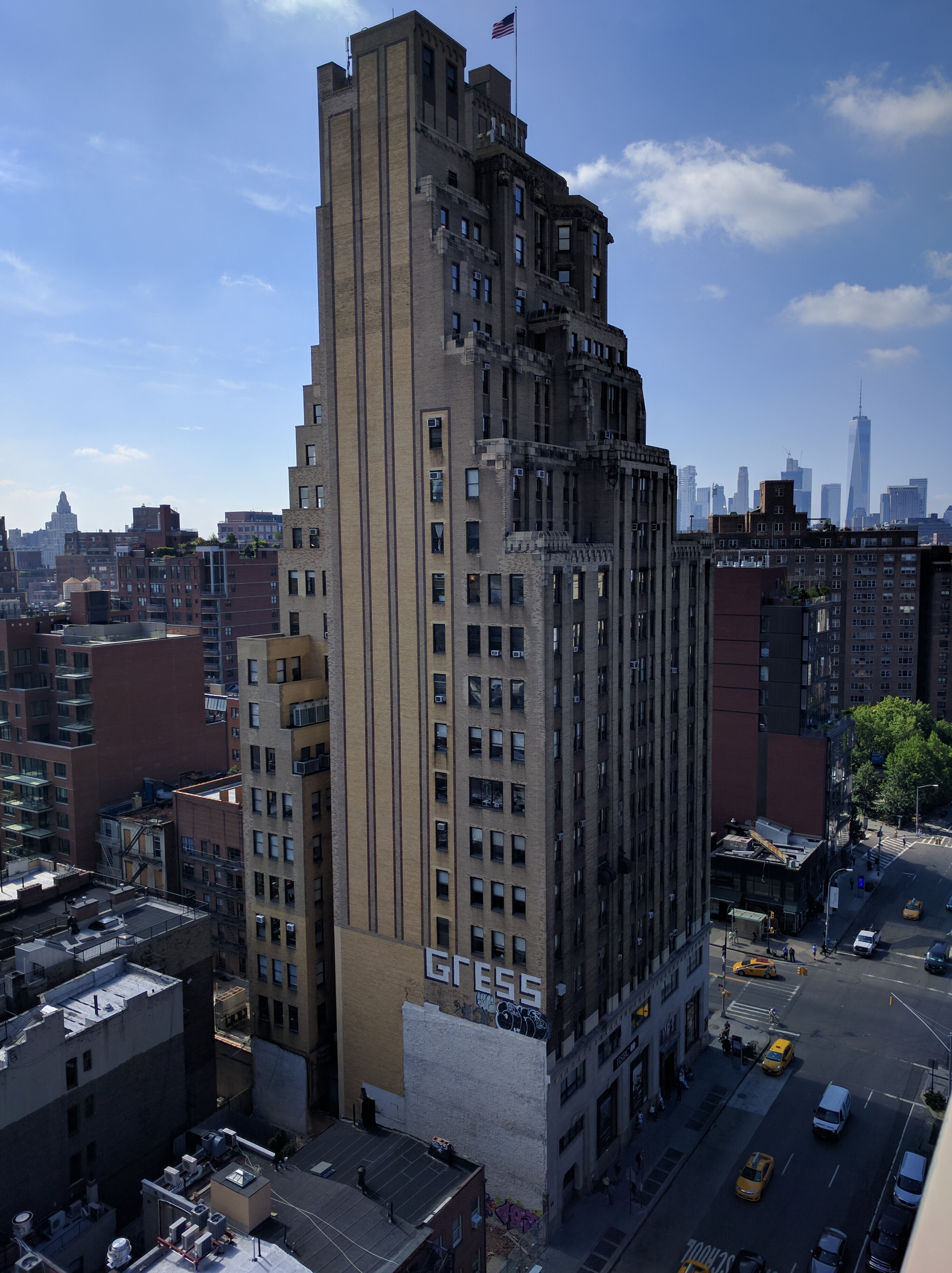 80 8th Avenue, home of New Directions Publishing, as seen from a terrace on 111 8th Avenue, the Port Authority building.